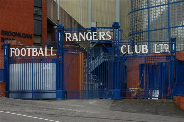 Ibrox Stadium These gates are situated between the main stand and the Broomloan stand.